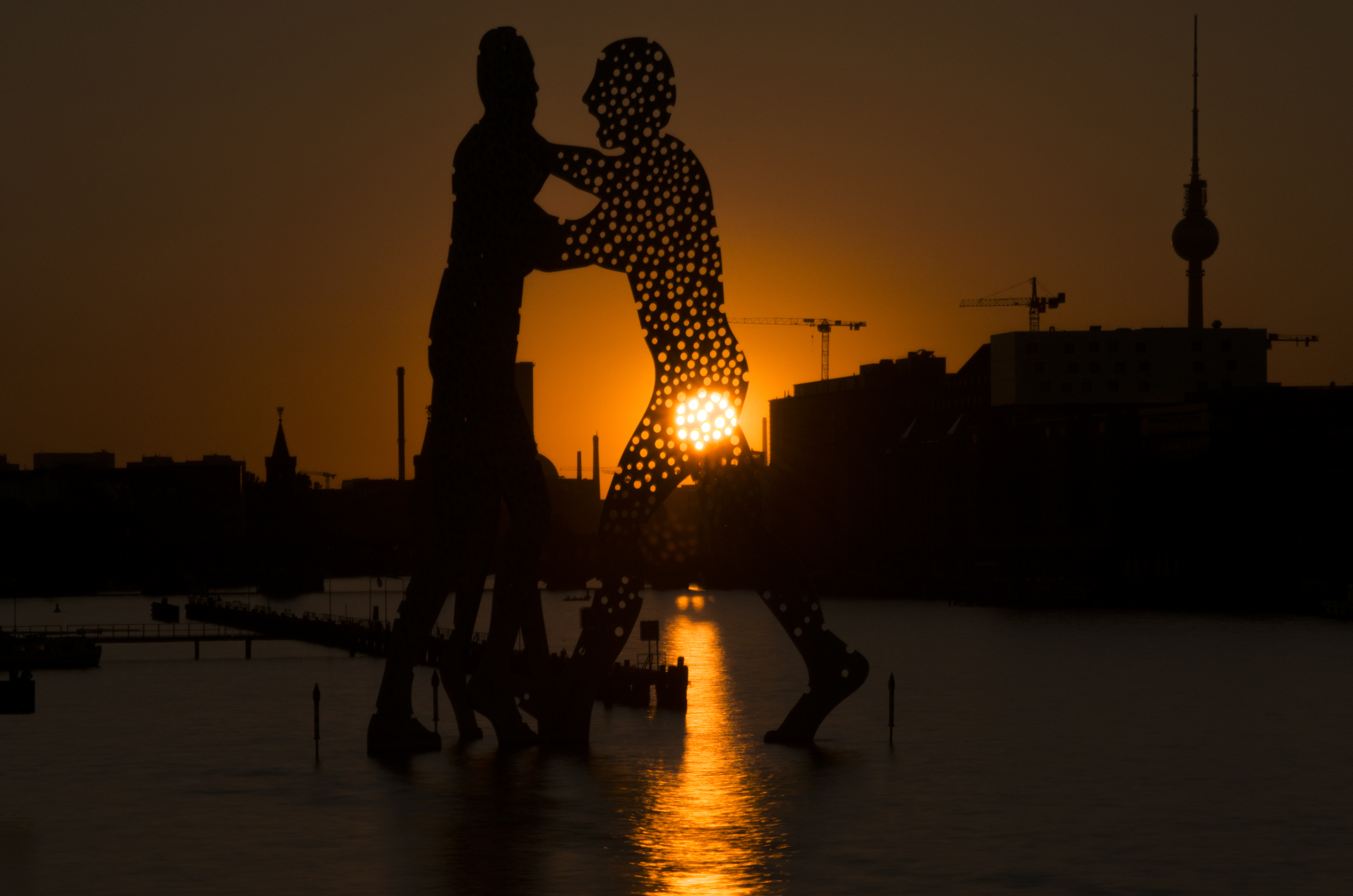 Molecule Man sculptures in Berlin taken at sunset.